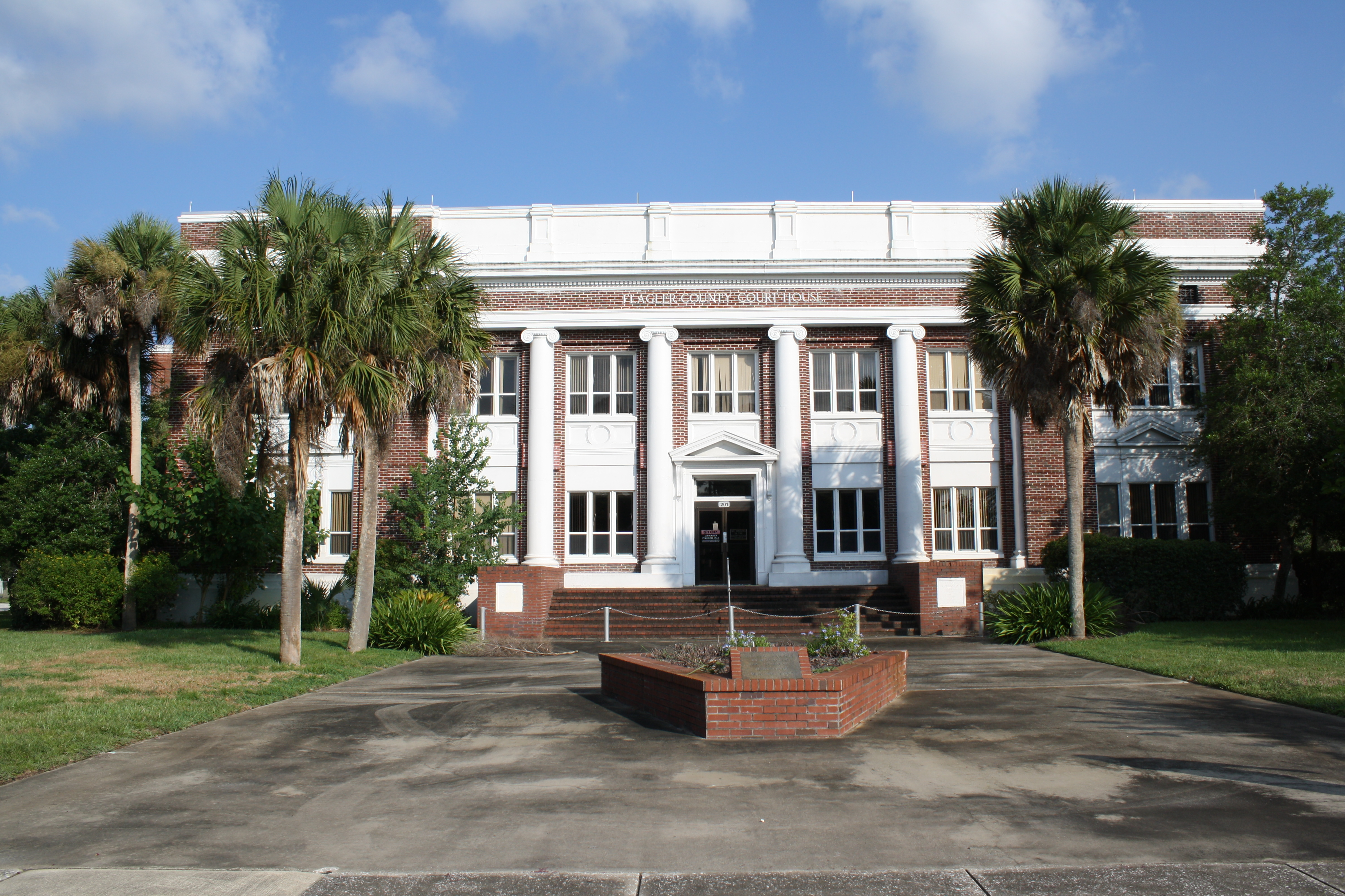 Historic Courthouse (no longer in use for this purpose, Flagler County, Bunnell, FL